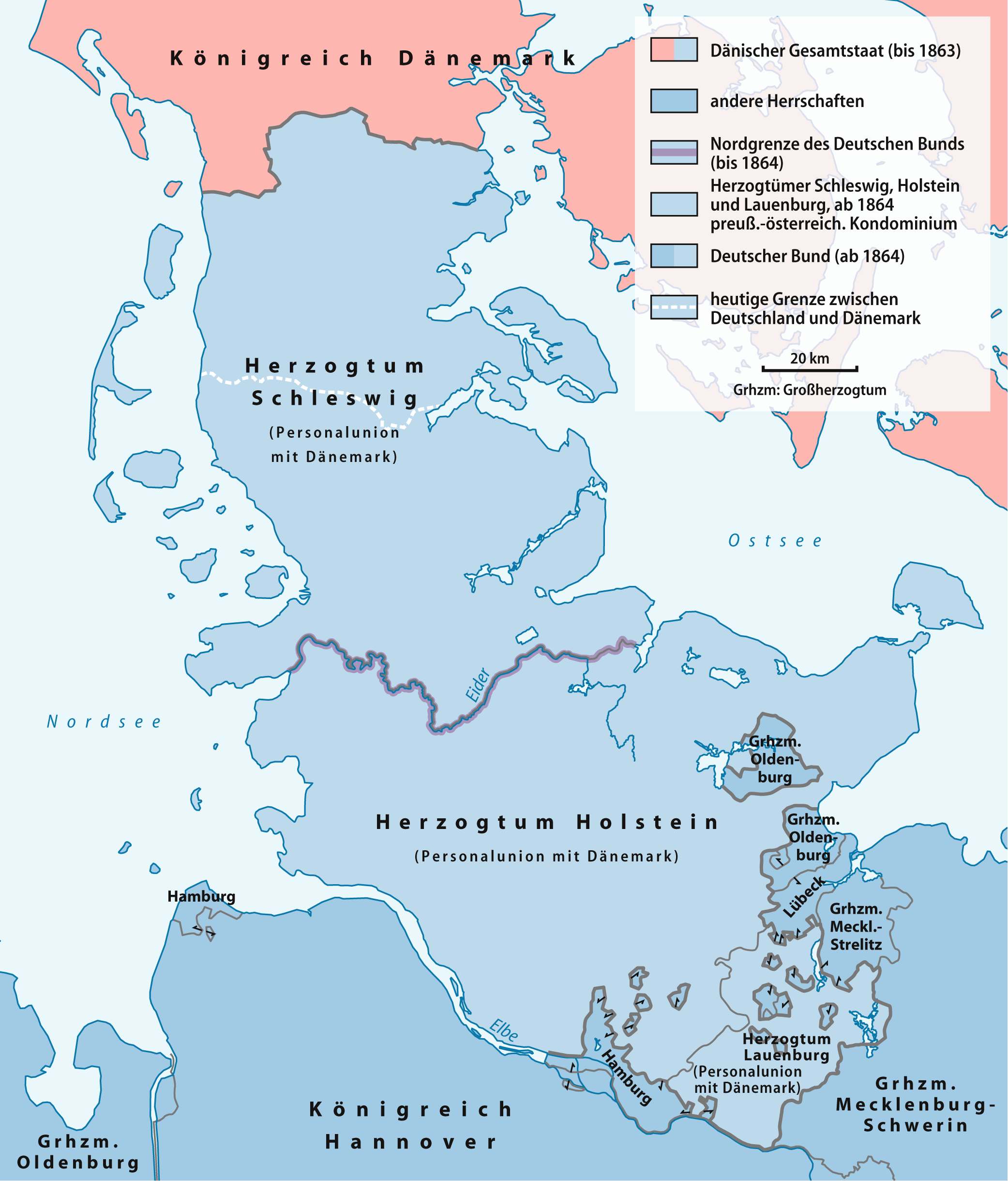 Map of the boundary changes after the Second Schleswig War - without the danish-royal enclaves